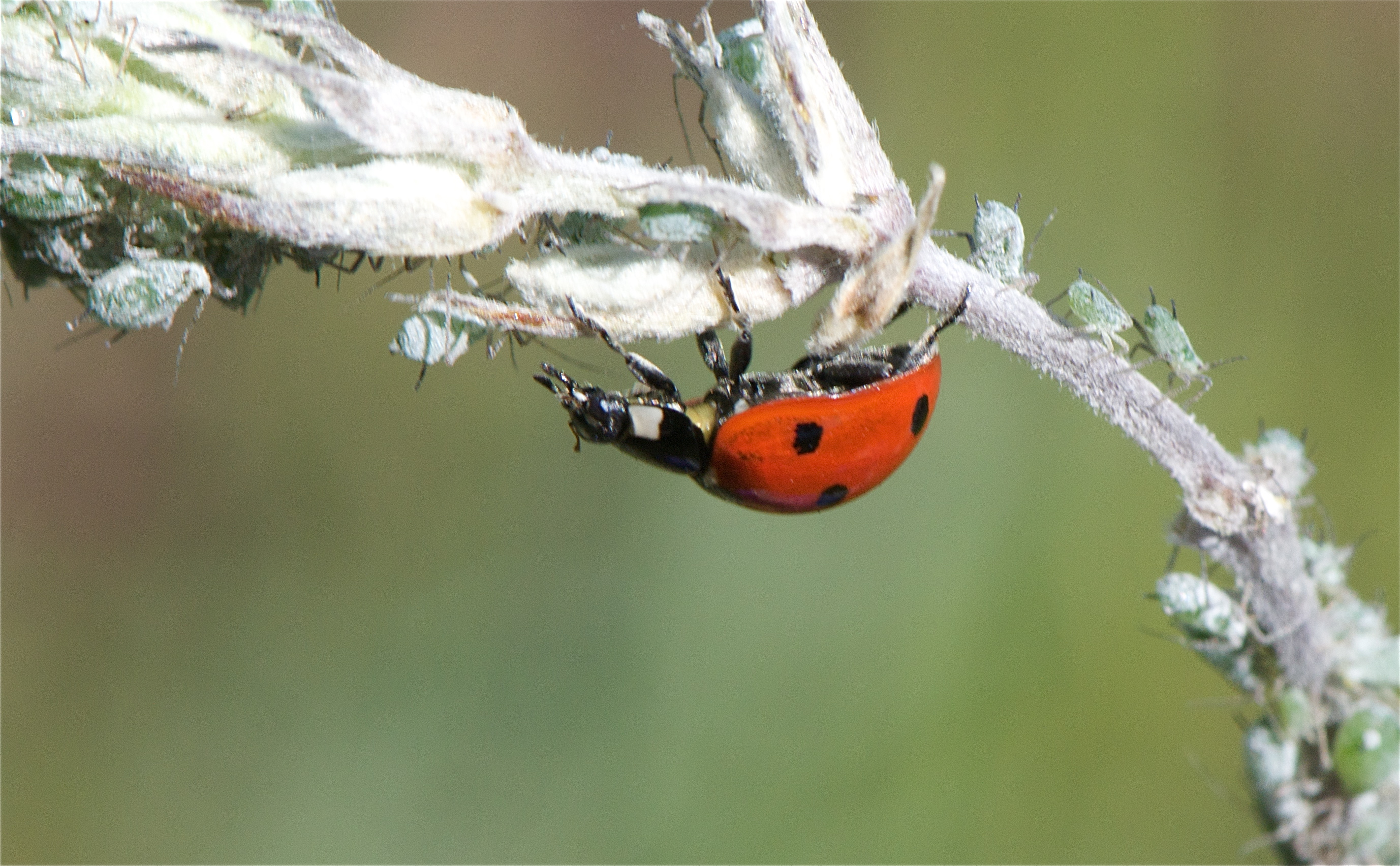 Anatis rathvoni